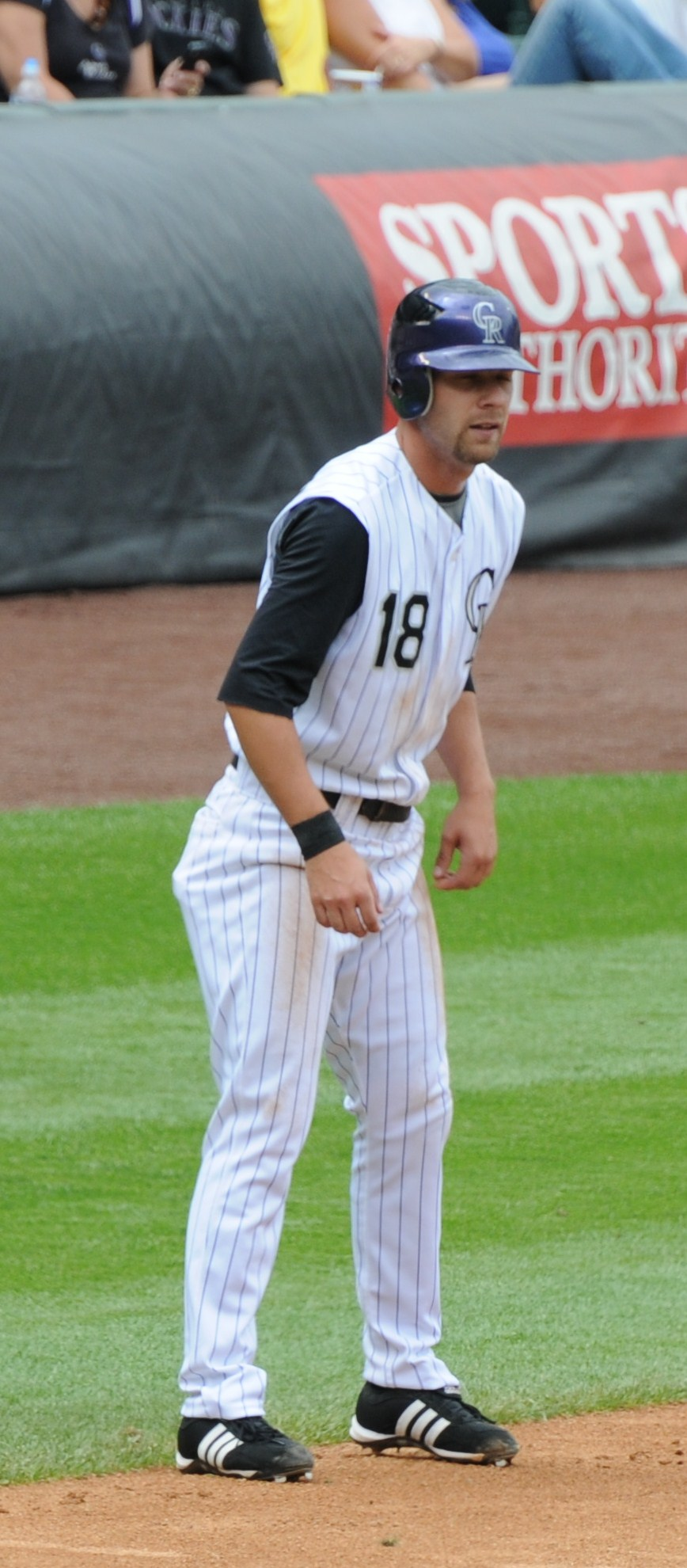 Description own work DateSourceI created this work entirely by myself.AuthorOnetwo1 (talk) 01:55, 11 August 2008 . . Onetwo1 . . 868×1,980 (309 KB) own work